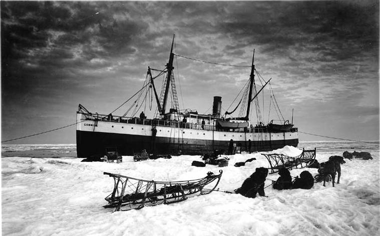 Photograph of steamer Corwin tied up to unload on the sea ice 5 miles offshore from Nome Alaska, 2 empty dogsleds in foreground with teams but no drivers, other sleds, teams, and freight closer to ship, men on deck. Original bears caption: "Landing of Str. Corwin at the edge of the ice 5 miles from shore, Nome, Alaska, June 1st, 1907. F.H. Nowell, 5384"; cropped from this file.